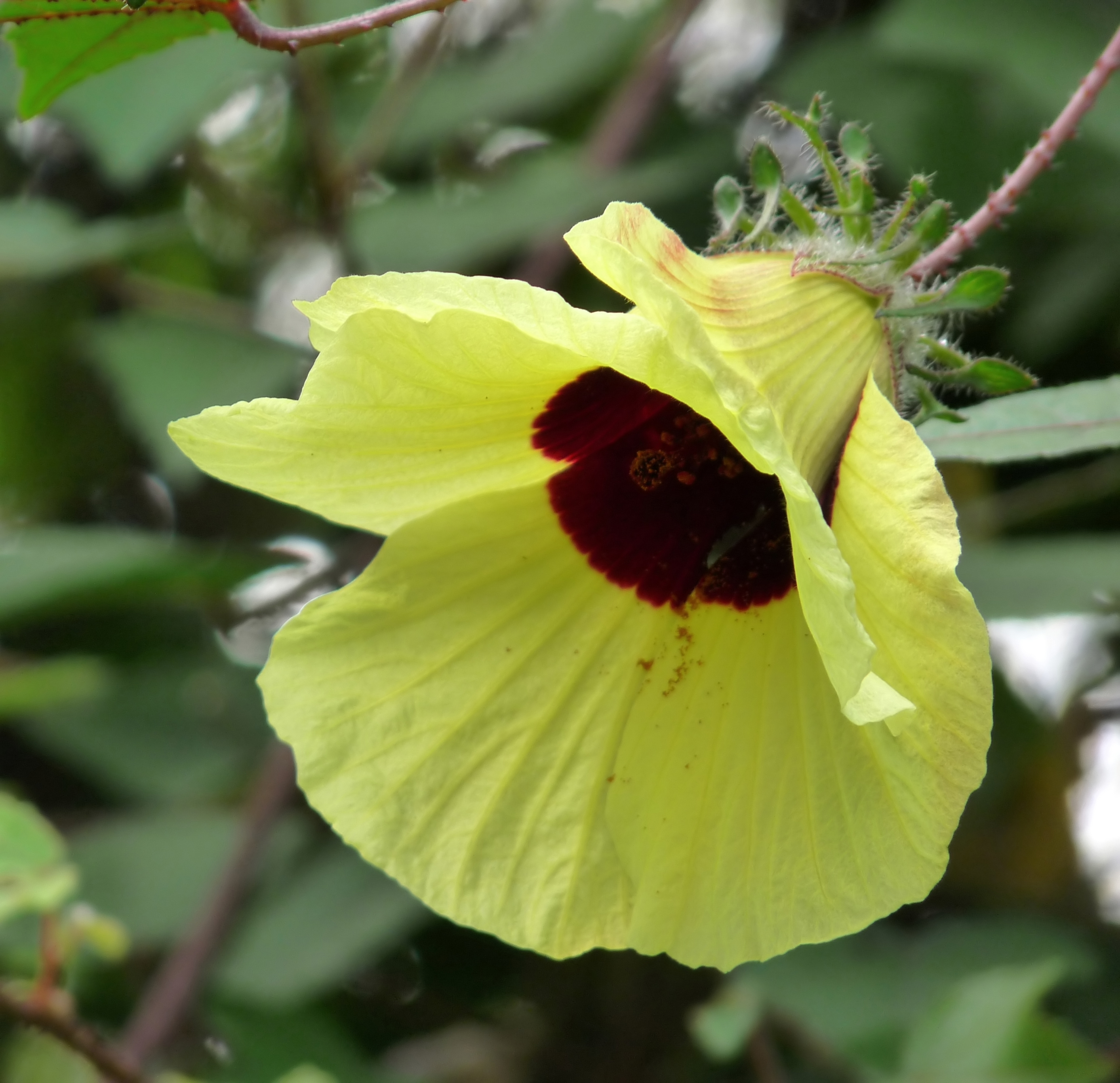 Hibiscus hispidissimus, Wild Hibiscus is a large climber, with sometimes reddish stems covered with hooked prickles. Alternately arranged leaves, 6-8 cm, are palmately 3-5-lobed, hairy, heart-shaped at base, prickly on the nerves. Leaf margins are toothed, lobes long-pointed, and the leaf-stalks are 5-10 cm long, prickly. Stipules are lanceshaped. Yellow flowers arise singly in leaf axils, carried on 3-5 cm long prickly stalks. Bracts below the flowers are 8-12, with leafy appendages. Sepals are hairy. Seed capsules are 1 cm long, ovoid, pointed, enclosed in enlarged sepal cup. Wild Hibiscus is commonly found in the evergreen forests of Western Ghats. Flowering: November-January. Ref:Hibiscus hispidissimus Griff. Previously published at Hibiscus hispidissimus